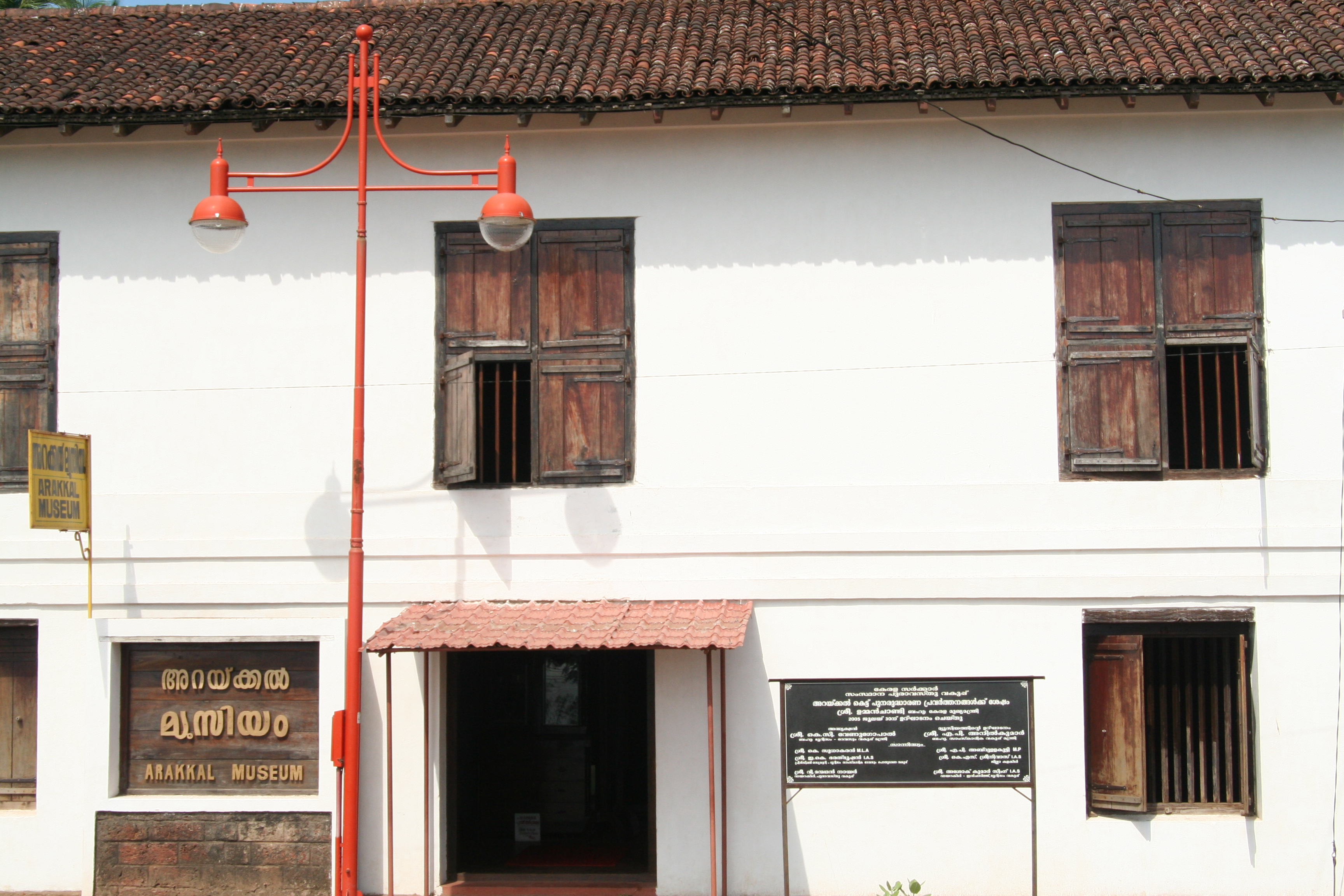 Arakkal kettu museum - kannur city